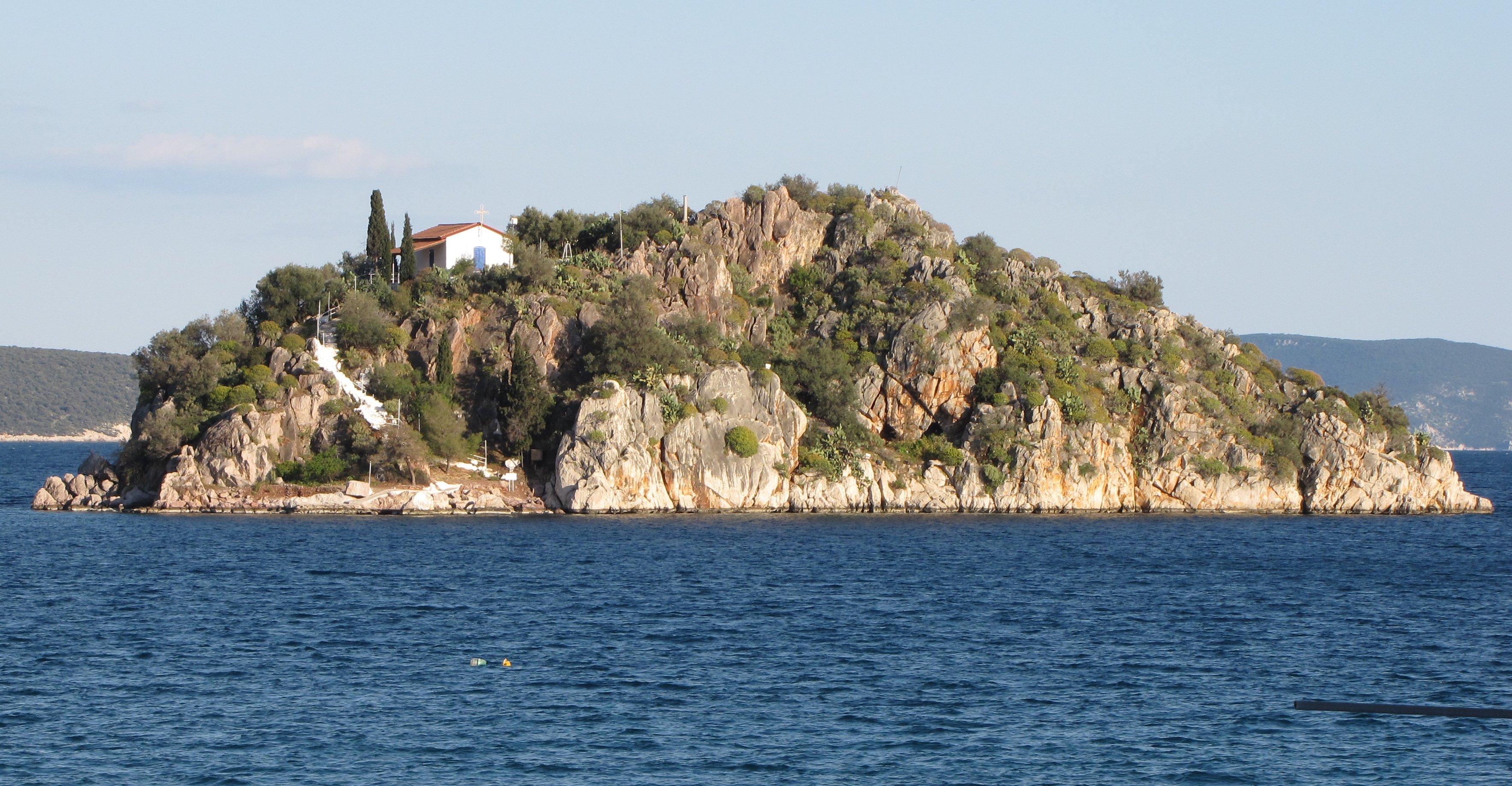 Ag. Apostoli in front of village of Tolo, Greece.